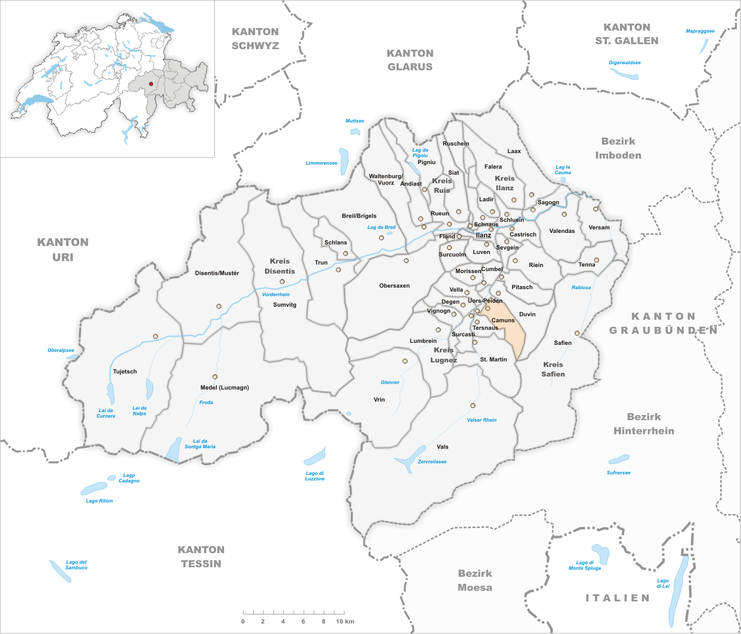 Municipality Camuns Artist: Tschubby